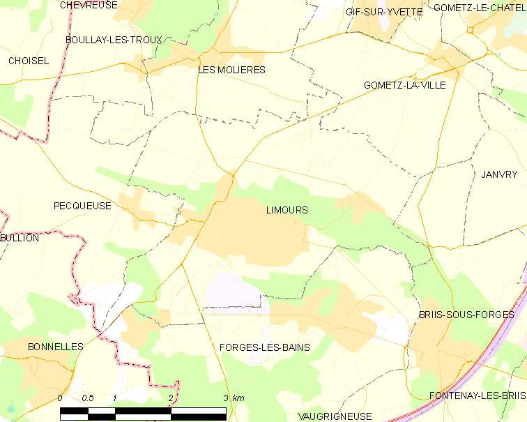 Map of French municipality Limours